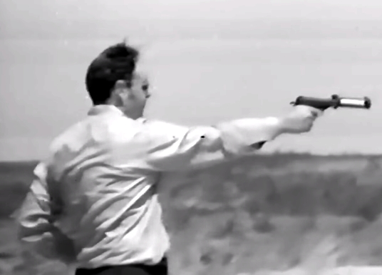 Harold Johnson of the Foreign Science and Technology Center, is firing the Walther P38 with silencer during a demonstration of foreign weapons at Fort Bragg, NC, for the U.S. Special Forces